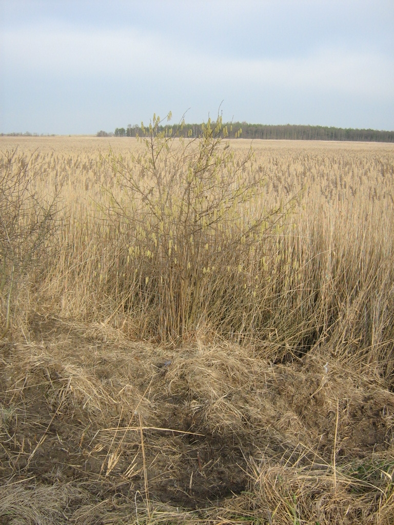 Nature Reserve "Ptasi Raj". Gdańsk. Late winter.